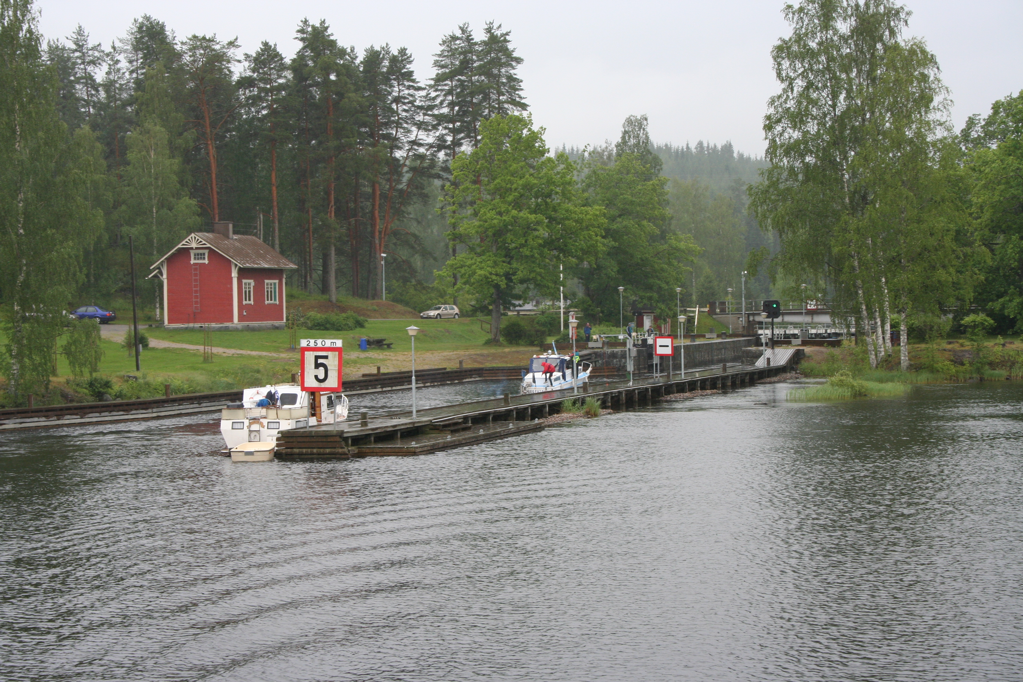 Kerma Canal in Heinävesi, Finland